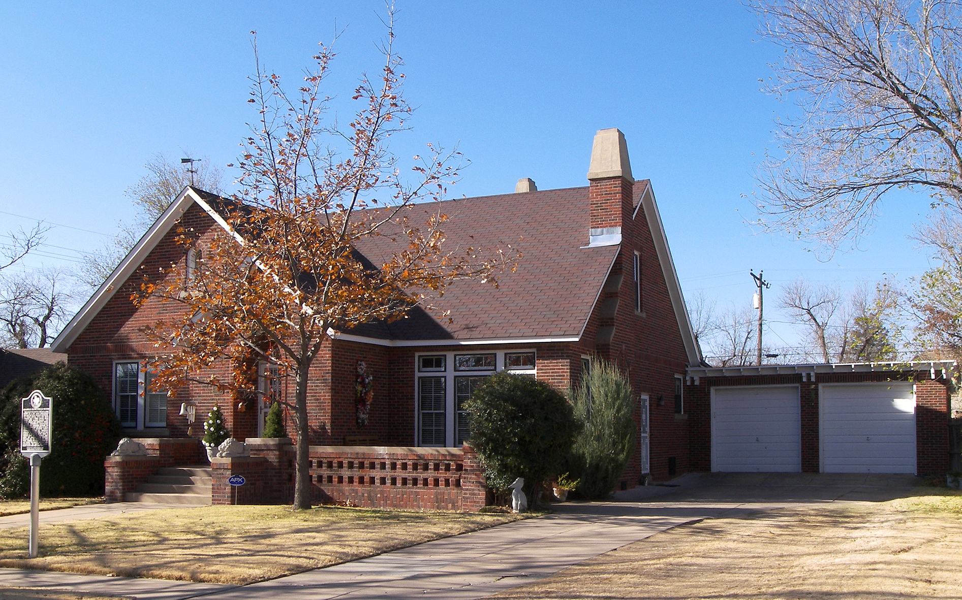 The Amarillo Globe Dream House was built in Amarillo, Texas, United States in 1925 as a joint project of a real estate development firm and the local evening newspaper. The house was added to the National Register of Historic Places on December 8, 1997 and designated a Recorded Texas Historic Landmark in 2008.